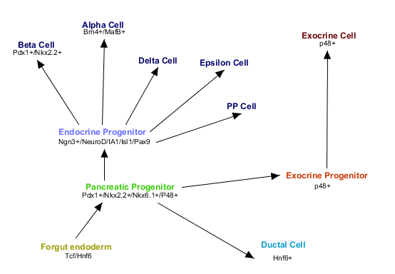 Pathway showing lineage of Pancreatic Progenitor Cells